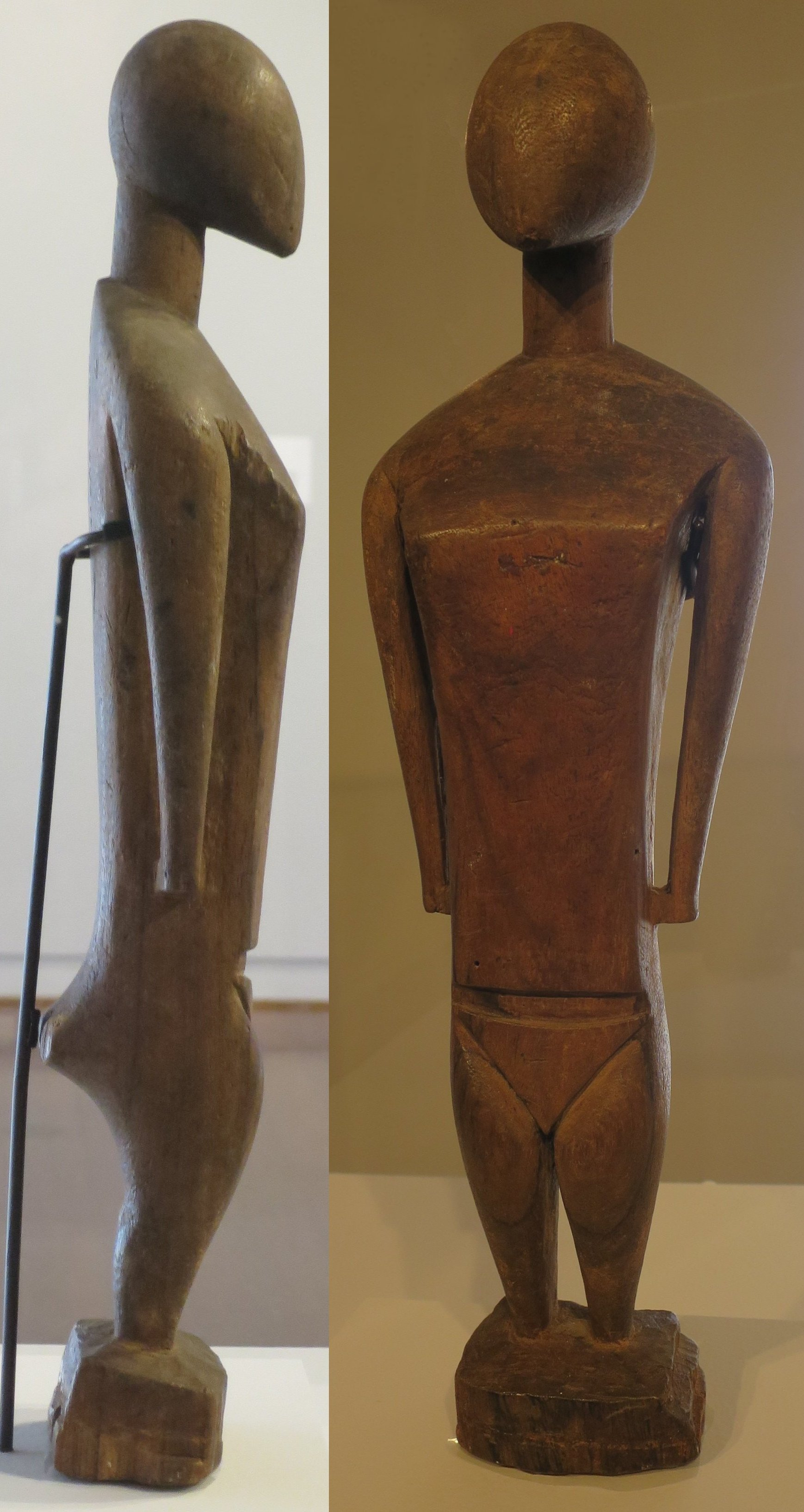 Ancestor figure (tino aitu), Nukuoro Atoll, Caroline Islands, Federated States of Micronesia, 19th century (collected 1874), carved wood, Honolulu Museum of Art, accession 4752